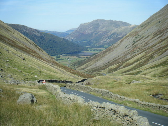 Kirkstone Pass View north down Kirkstone Pass towards Brothers Water.